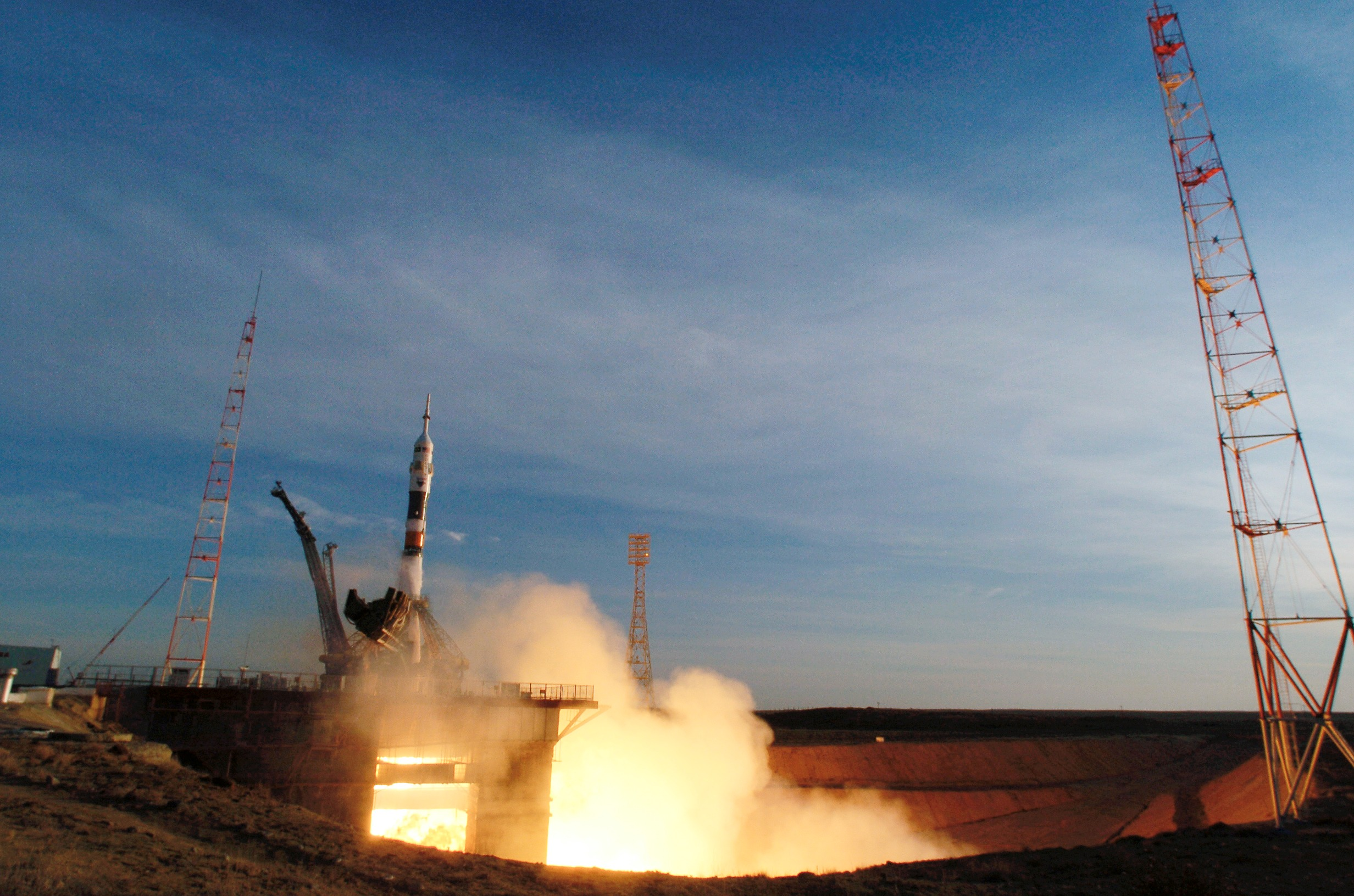 With the launch of a Soyuz rocket, cosmonaut Pavel V. Vinogradov, Russia�s Federal Space Agency Expedition 13 International Space Station commander, and astronaut Jeffrey N. Williams, NASA International Space Station flight engineer and science officer, began their mission Wednesday at 9:30 p.m. EST, (Thursday, March 30, 2006, 8:30 a.m. Kazakhstan time). They launched aboard a Soyuz rocket from the Baikonur Cosmodrome in Kazakhstan. Joining them for several days before returning home with the Expedition 12 crew is astronaut Marcos Pontes, Brazilian Space Agency Soyuz crew member.